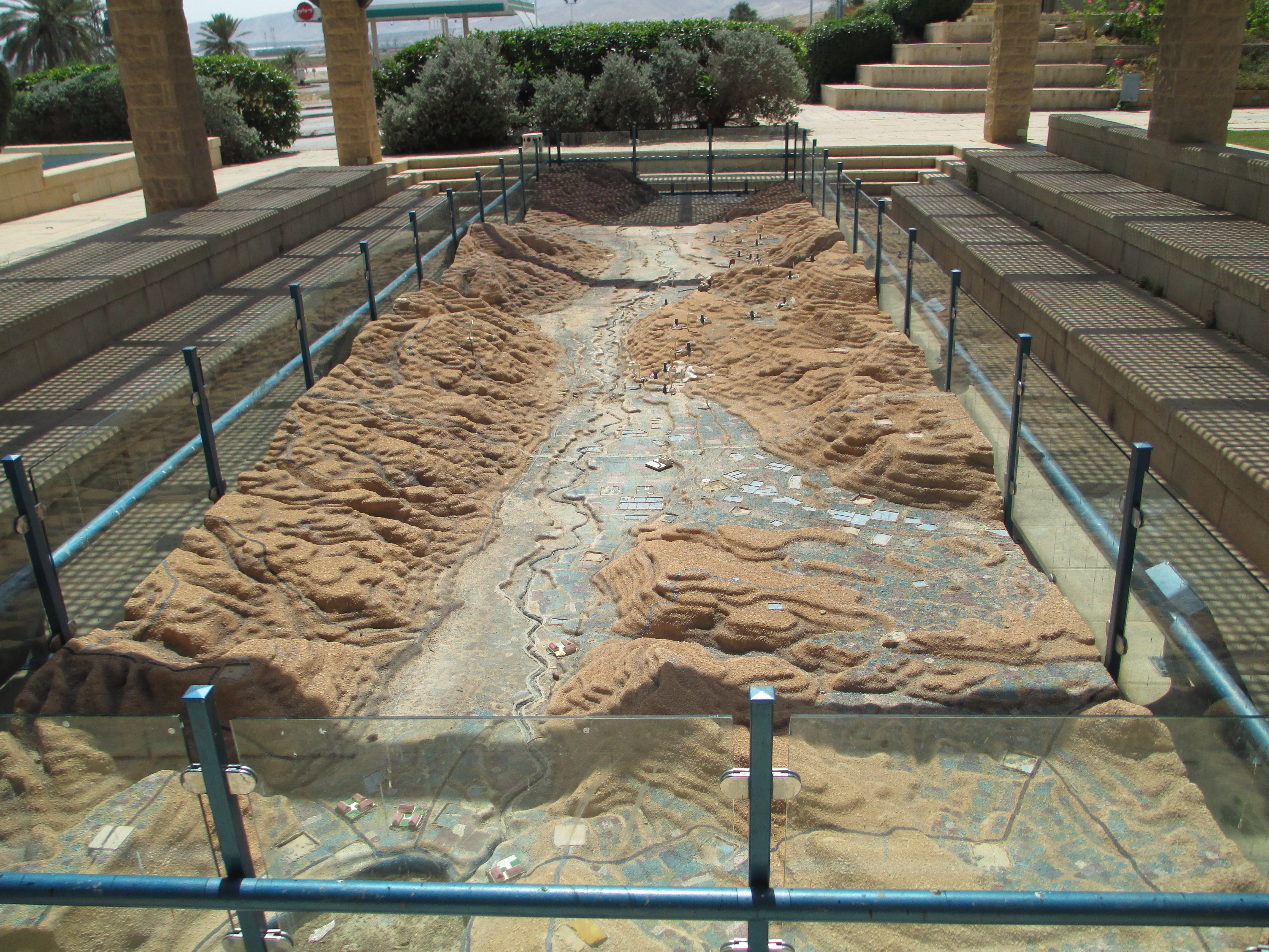 Jordan Valley Exhibit